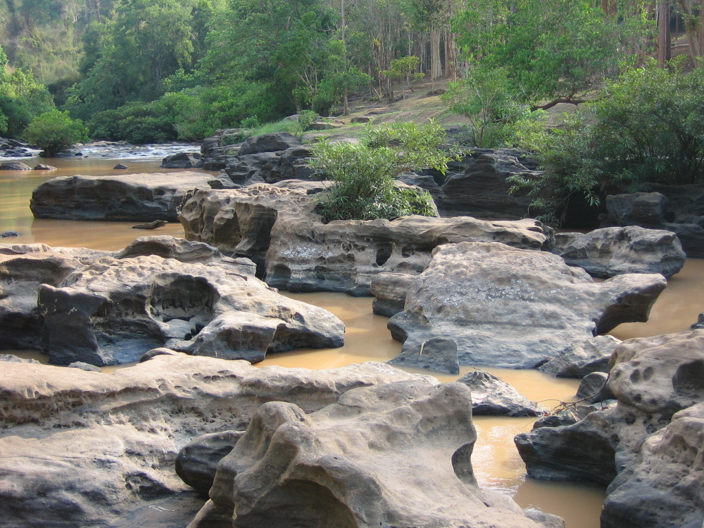 Thung Salaeng Luang Rapids - Khek River